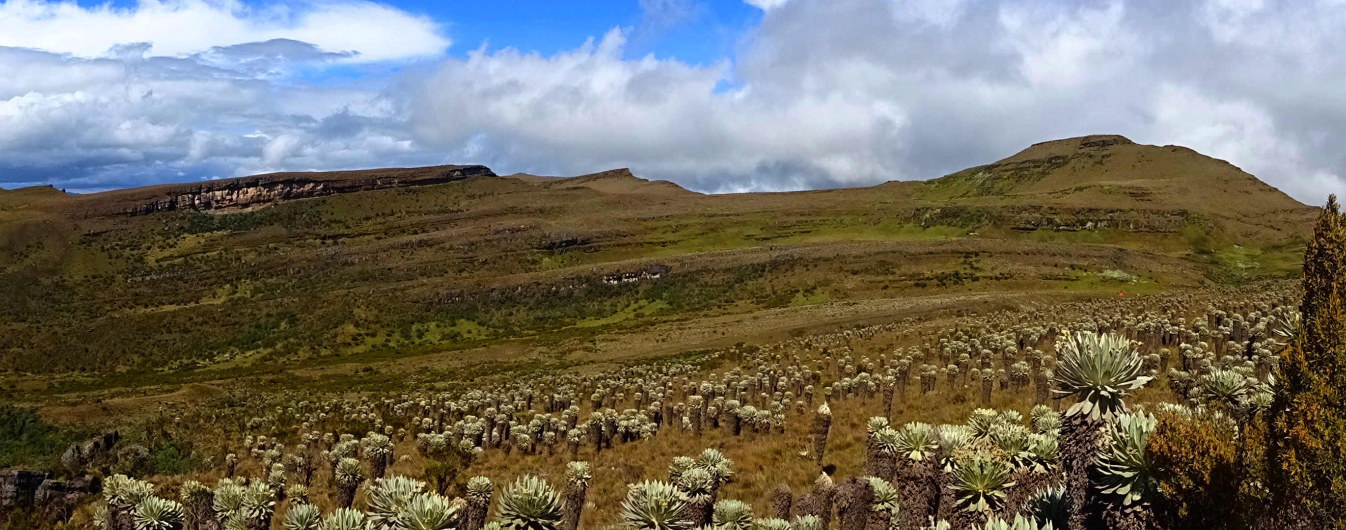 Panorama of the "Playa" or "Valle de los Frailejones", Páramo de Ocetá, Boyacá, Colombia